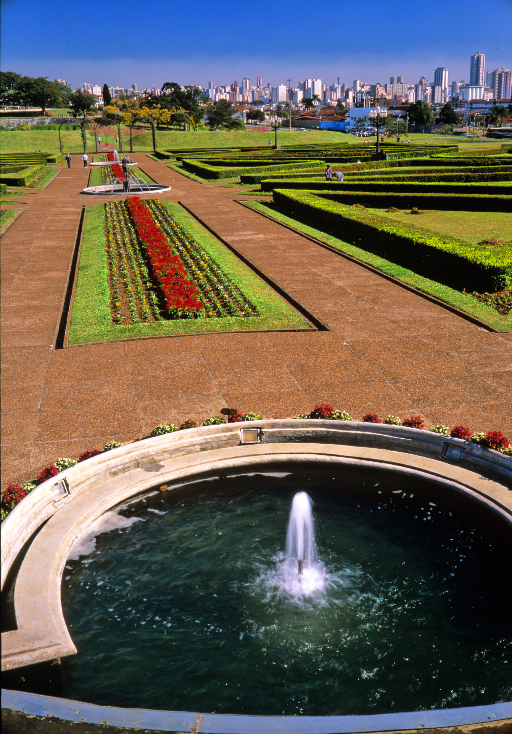 Legend: Botanical Garden, Curitiba, Brasil.